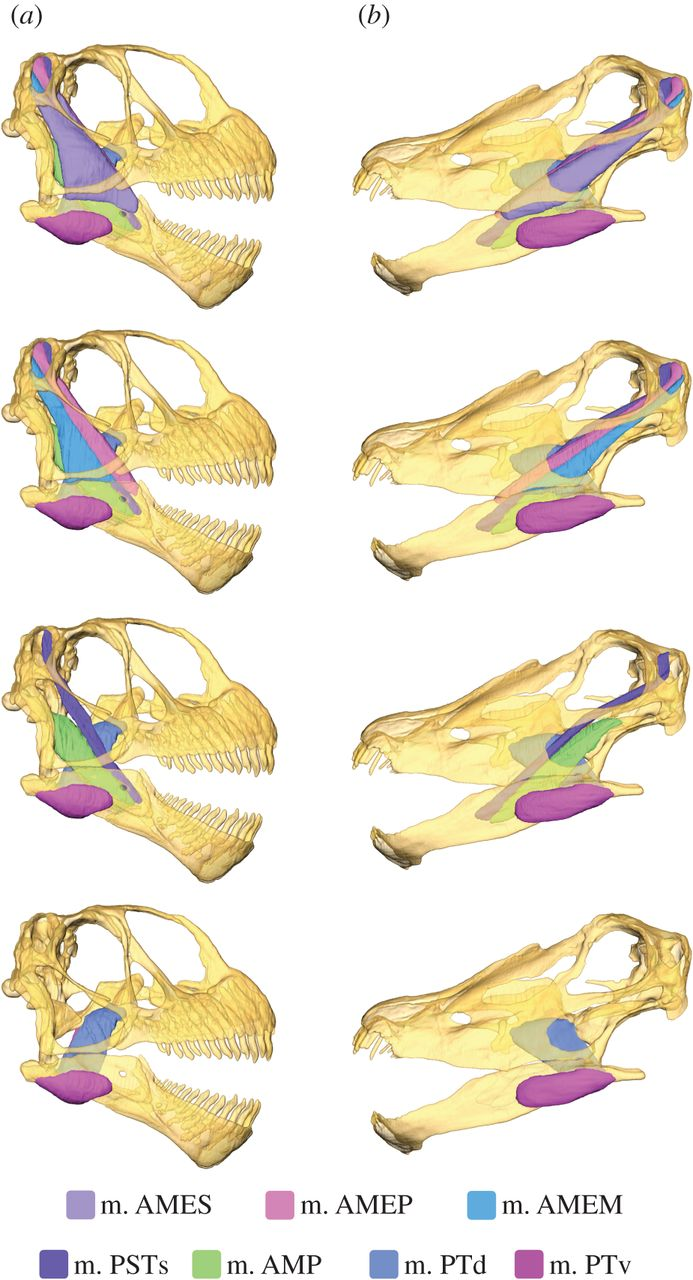 Model of the skull of (a) Camarasaurus and (b) Diplodocus, demonstrating the reconstructed jaw adductor musculature at four successive ‘depths'. See §2a for muscle abbreviations. For muscle forces, see table 1, and electronic supplementary material, table S6 and §S5.